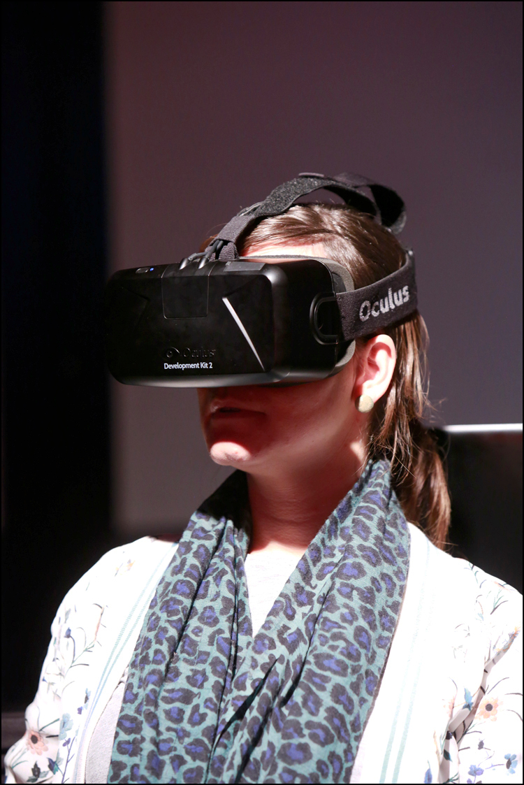 Oculus Rift